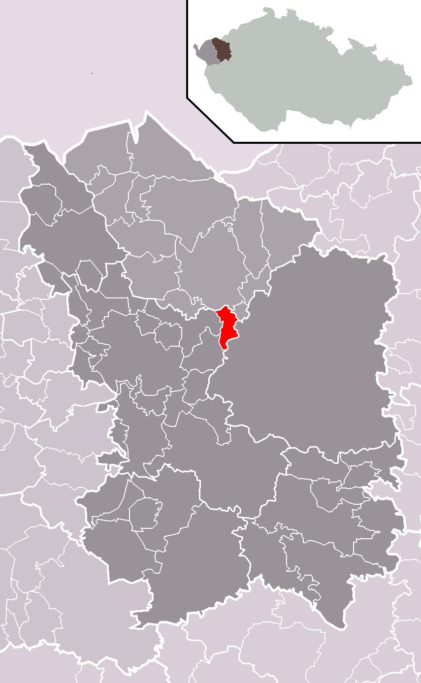 Location of Kyselka municipality within Karlovy Vary District and administrative area of Karlovy Vary as a Municipality with Extended Competence.